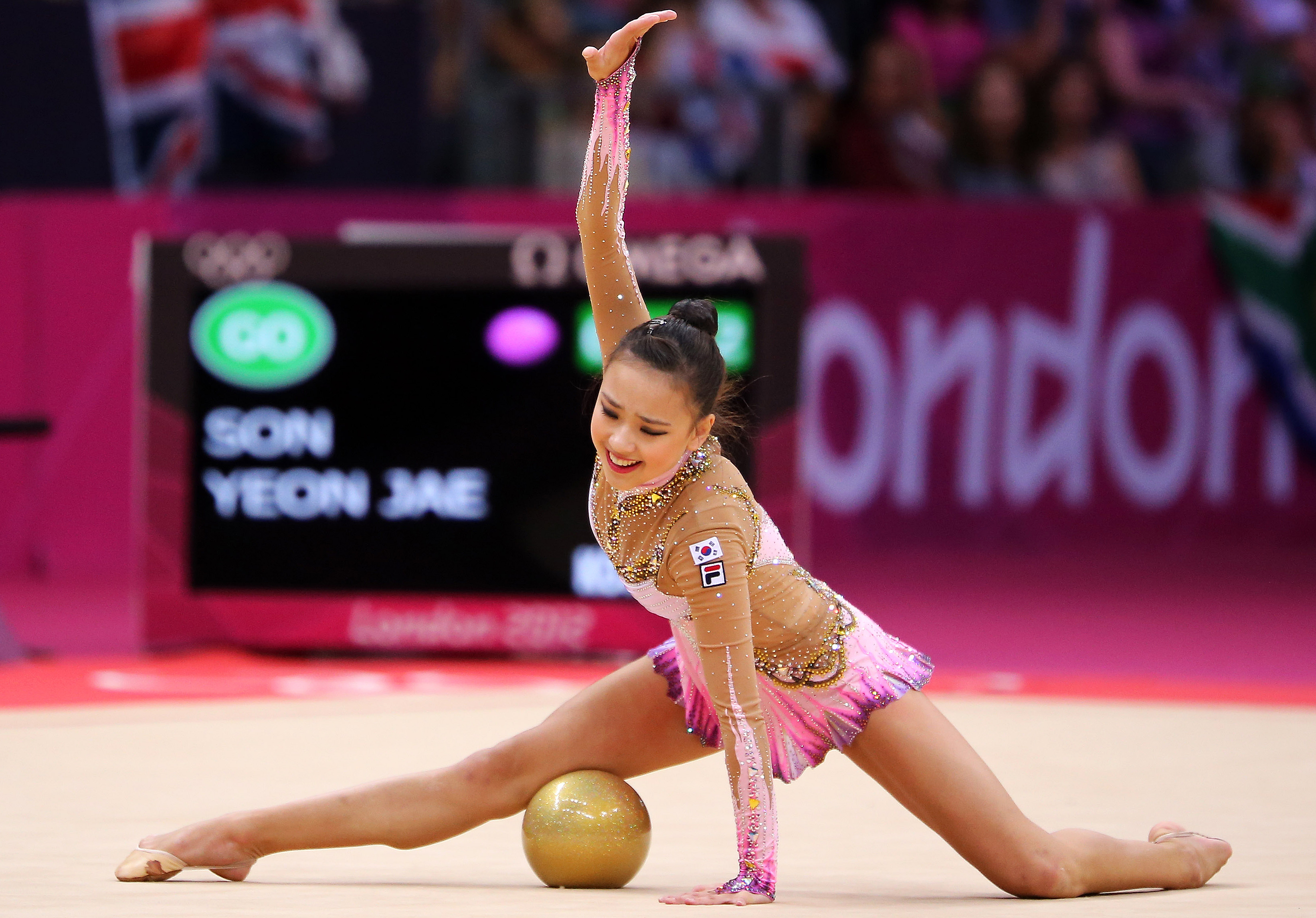 2012 London Olympic Games Son Yeon Jae of Korea performs her Individual All-Around Final. Son finished fifth in the individual all-around final at Wembley Arena 2012.08.12. Photo by Korean Olympic Committee Ministry of Culture, Sports and Tourism Korean Culture and Information Service 2012 런던 올림픽 리듬체조 개인종합 결선에서 5위에 오른 손연재 사진제공 - 대한체육회 문화체육관광부 해외문화홍보원